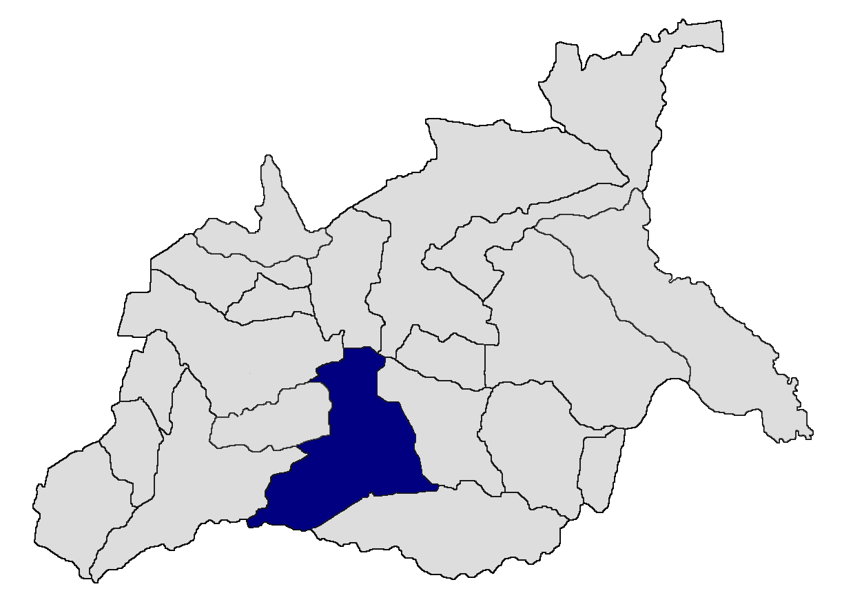 Caaguazú